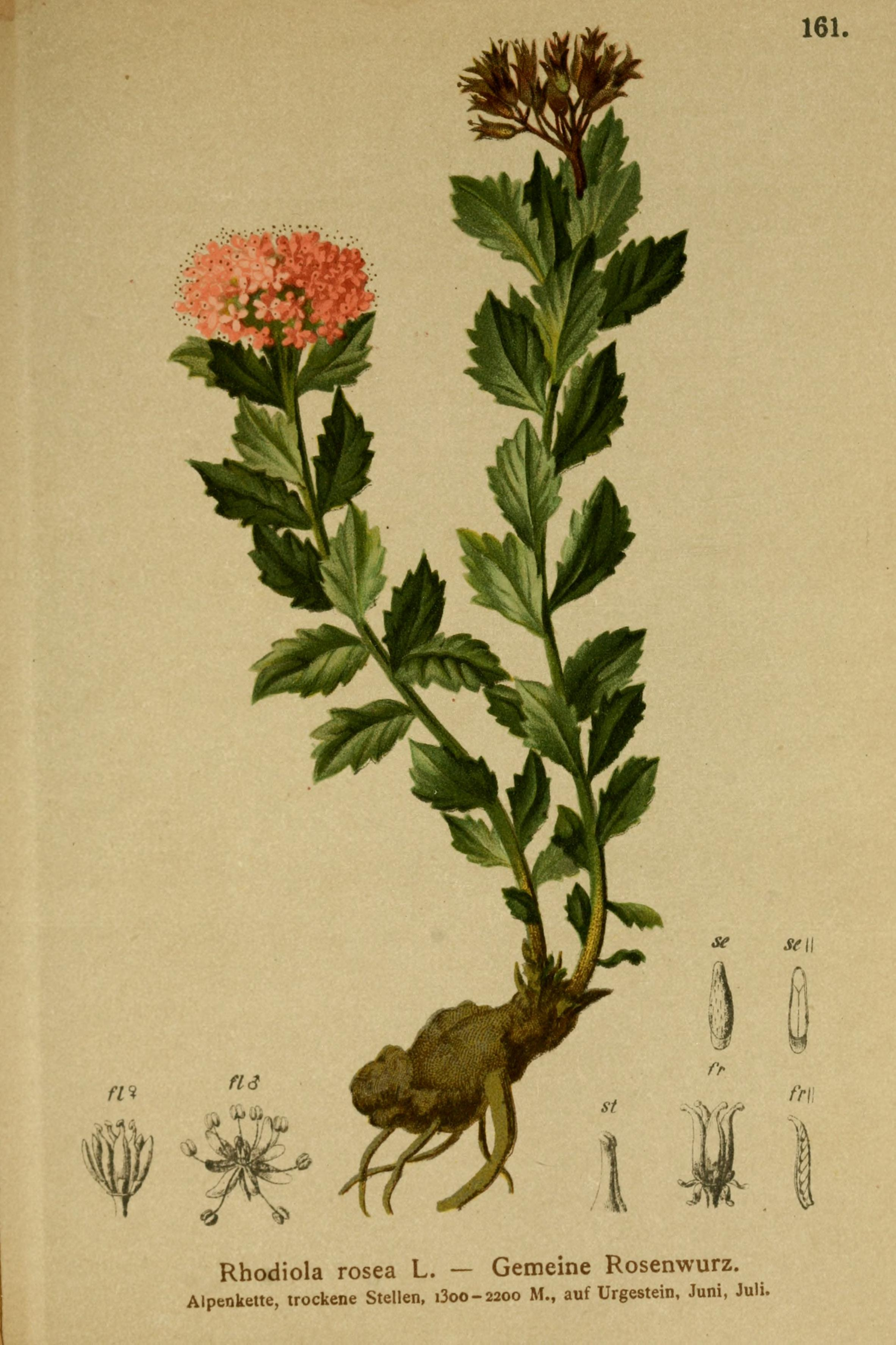 Title: Atlas der Alpenflora Year: 1882 (1880s) Authors: Hartinger, Anton, b. 1806; Dalla Torre, K. W. von (Karl Wilhelm), 1850-1928; Deutscher Alpenverein (Founded 1874) Subjects: Mountain plants Publisher: Wien : Eigenthum und Verlag des Deutschen und Oesterr. Alpenvereins Text Appearing Before Image: ' Text Appearing After Image: 161. se sew tn Rhodiola rosea L. — Gemeine Rosenwurz. Alpeokette, trockene Stellen, i3oo-22oo M., auf Urgestein, Juni, Juli.